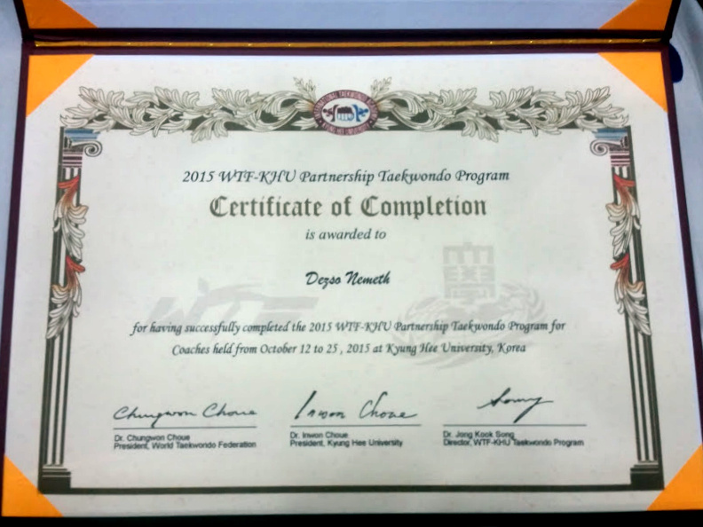 Dezső Németh's coaching diploma from Seoul, South Korea